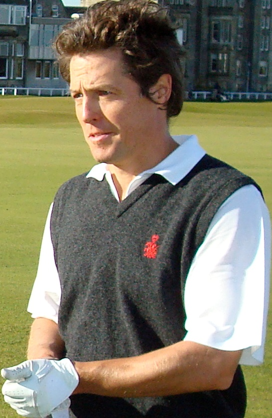 Hugh Grant during Round 2 of the 2007 Alfred Dunhill Links Championship at The Old Course in St Andrews, Scotland. (edited, cropped from Image:Hugh Grant Dunhill 2007.jpg)